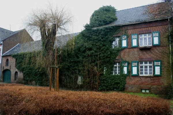 Cultural heritage monument No. 30 in Selfkant